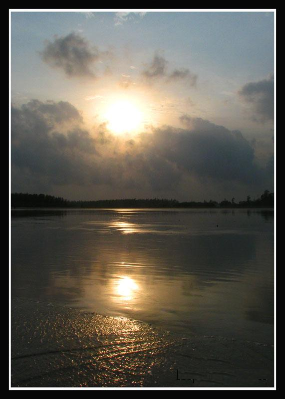 sunset 1